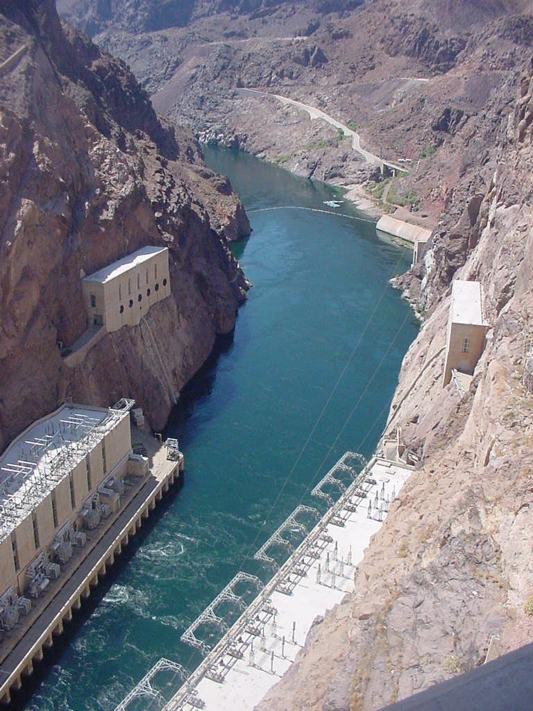 My picture from the Hoover Dam down the Colorado River taken on August 31, en:2001.